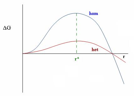 Comparison of the free energy barrier for heterogeneous and homogeneous nucleation